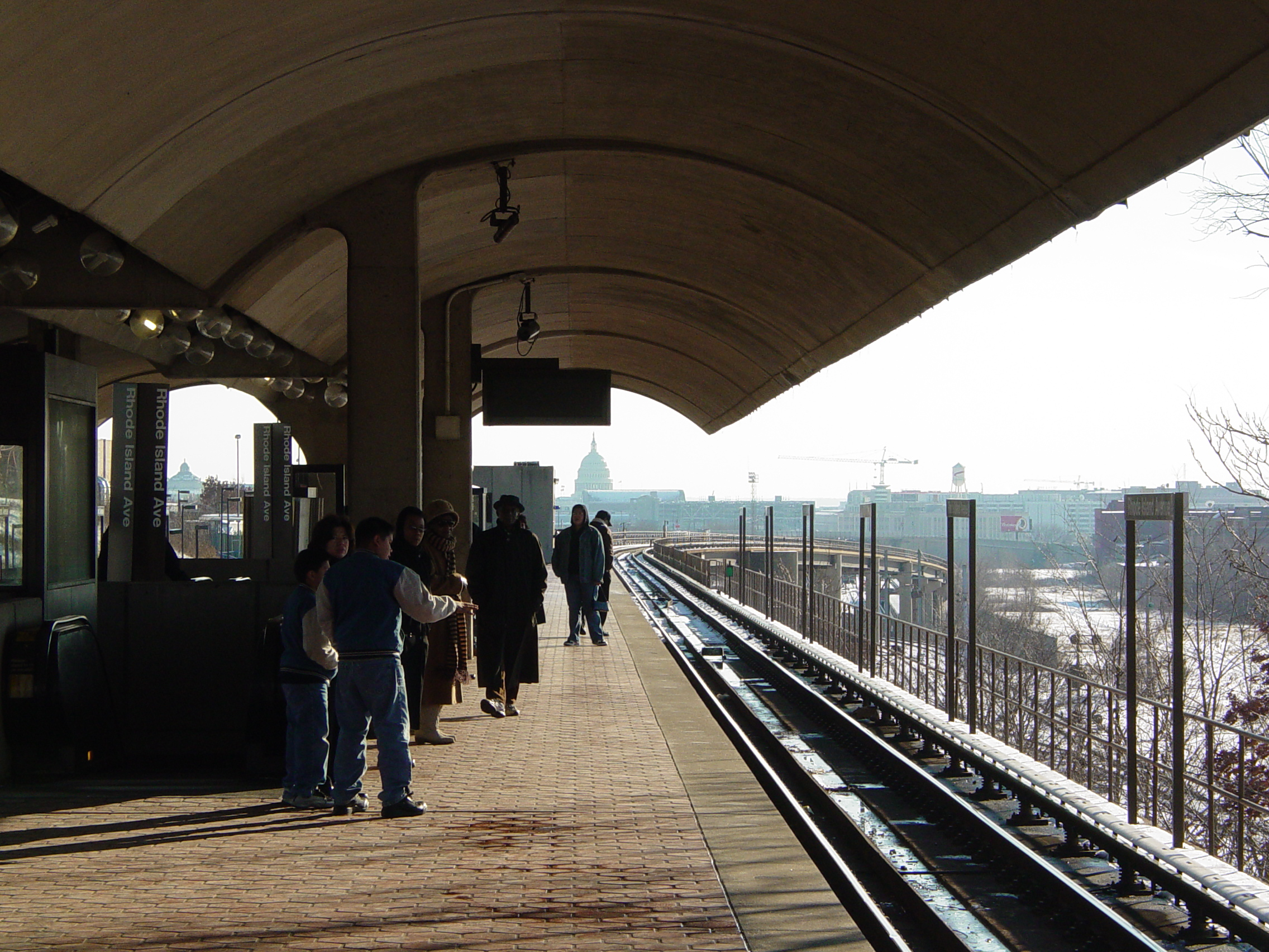 Rhode Island Ave-Brentwood station, on the Washington Metro system.